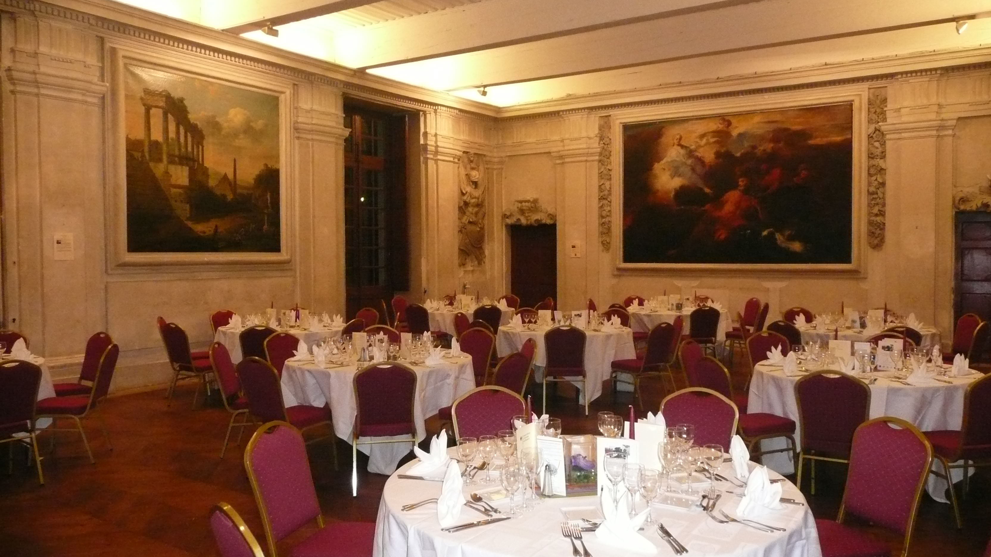 Chateau de Sassenage, near Grenoble